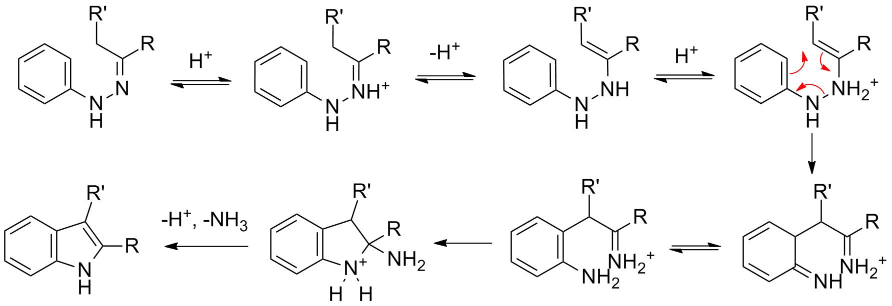 Principles of Organic Synthesis 3rd edition page 689.